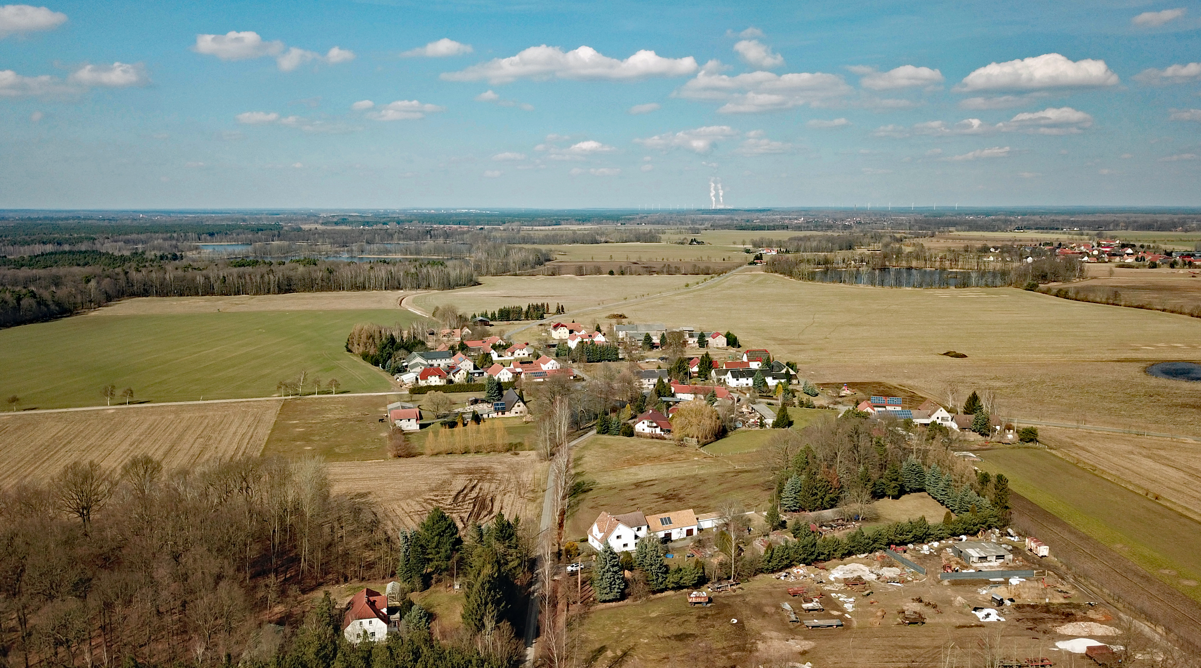 Truppen (Königswartha, Saxony, Germany) Hornjoserbsce: Powětrowy wobraz Trupina